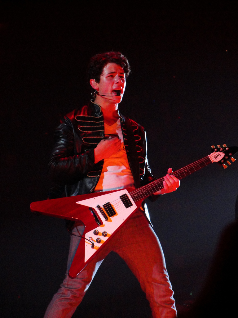 Jonas Brothers Concerts